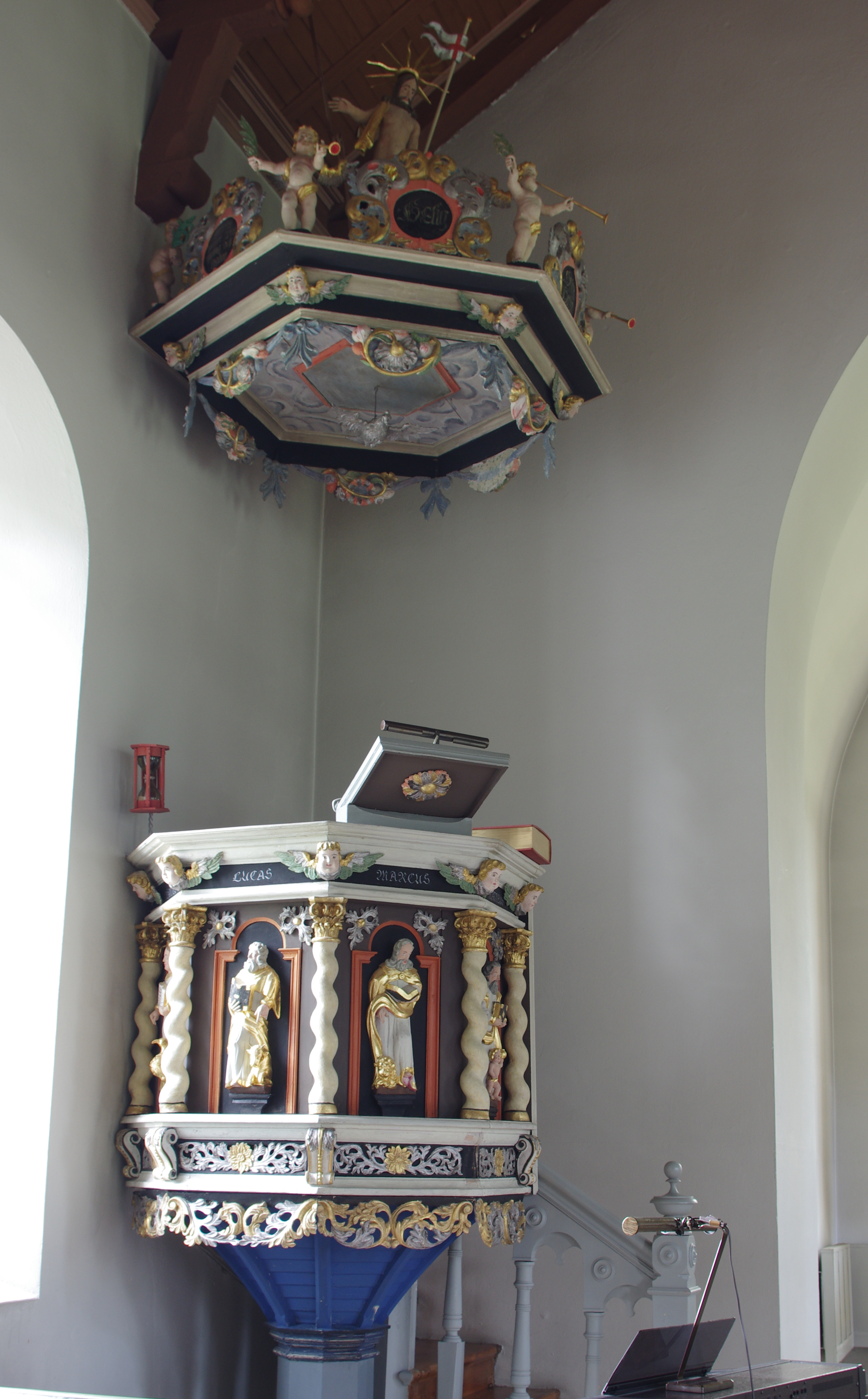 The new church of Suntak in Västergötland, Sweden.